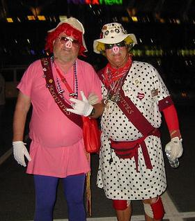 The Hogettes